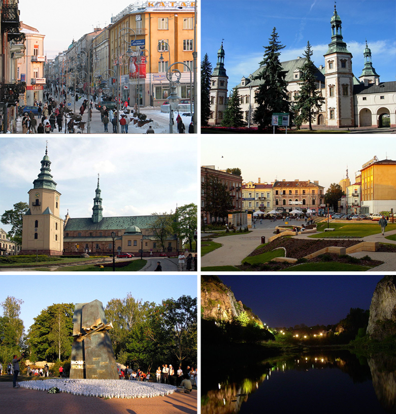 Kielce: Sienkiewicza Street, Bishops Palace, Kielce Cathedral, Artists Square, Homo Homini Monument, Kadzielnia